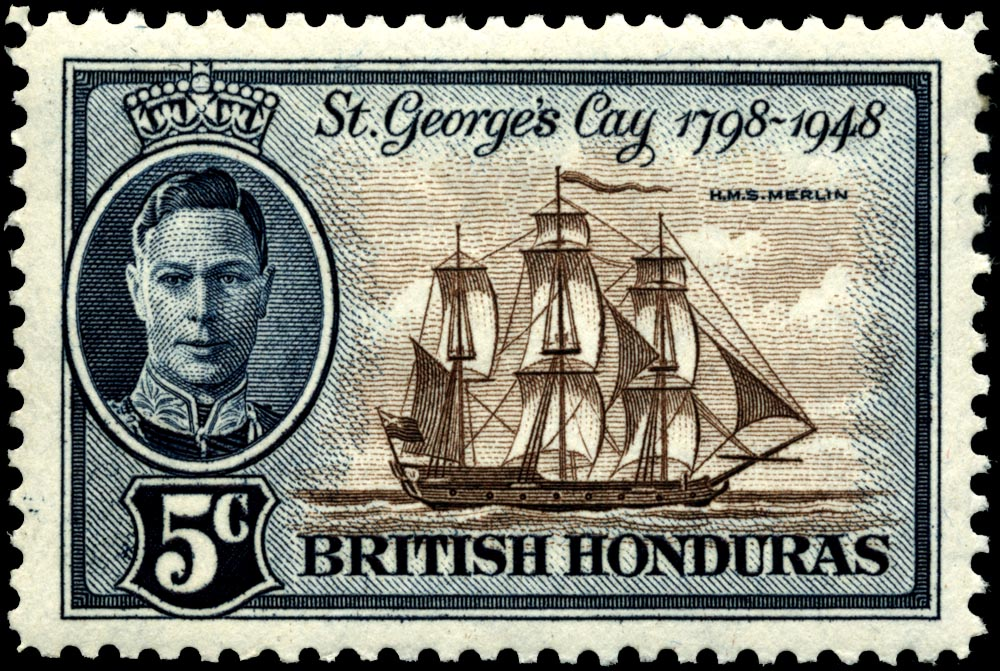 British Honduras 5c stamp of 1948, H.M.S. Merlin.